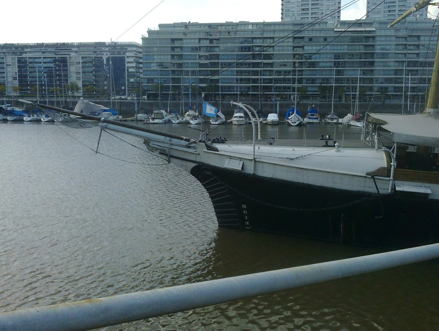 Navy Jack of the argentinian corvette Uruguay (now a museum), moored at Puerto Madero, Buenos Aires.